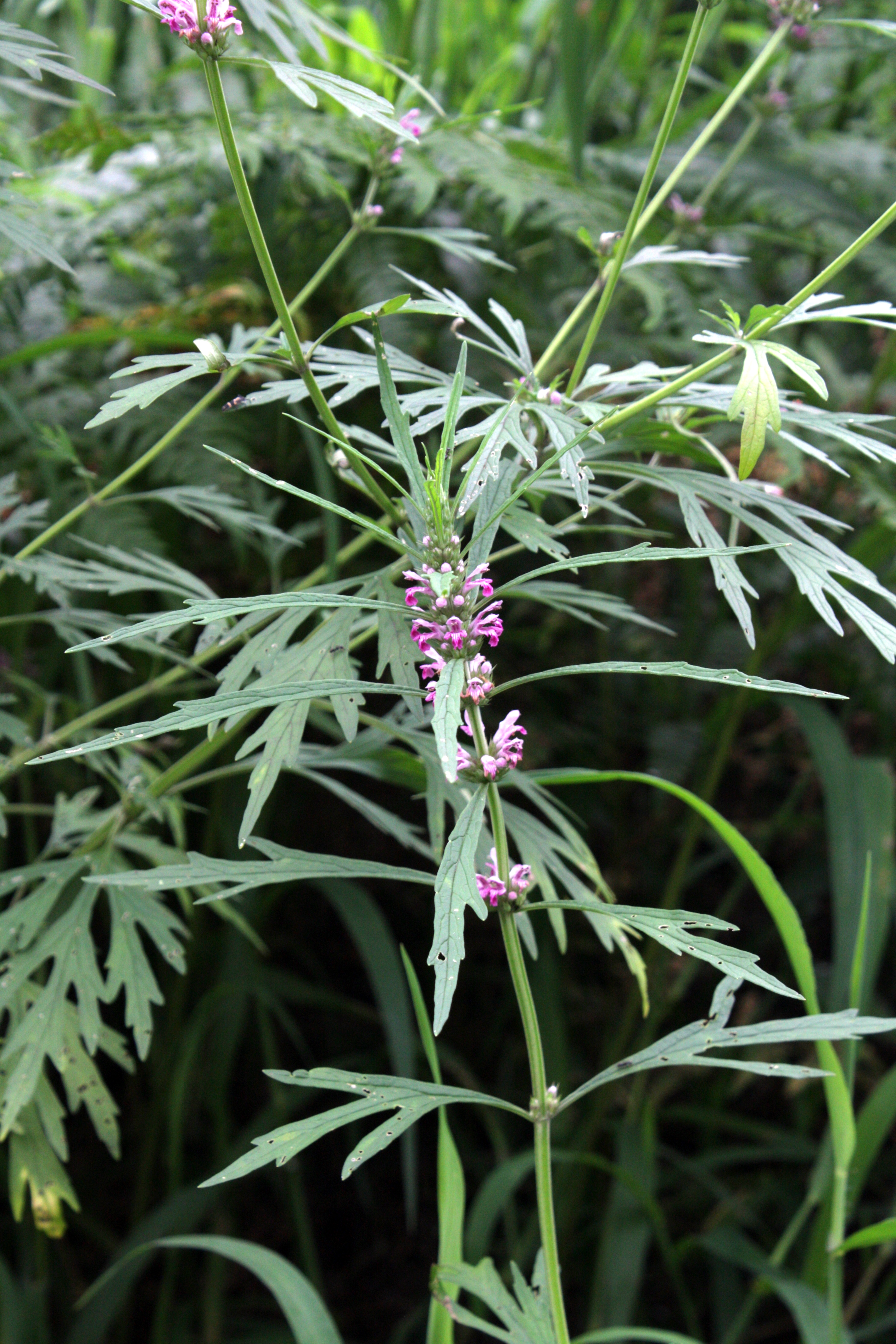 Leonurus japonicus in Sunchang, Korea